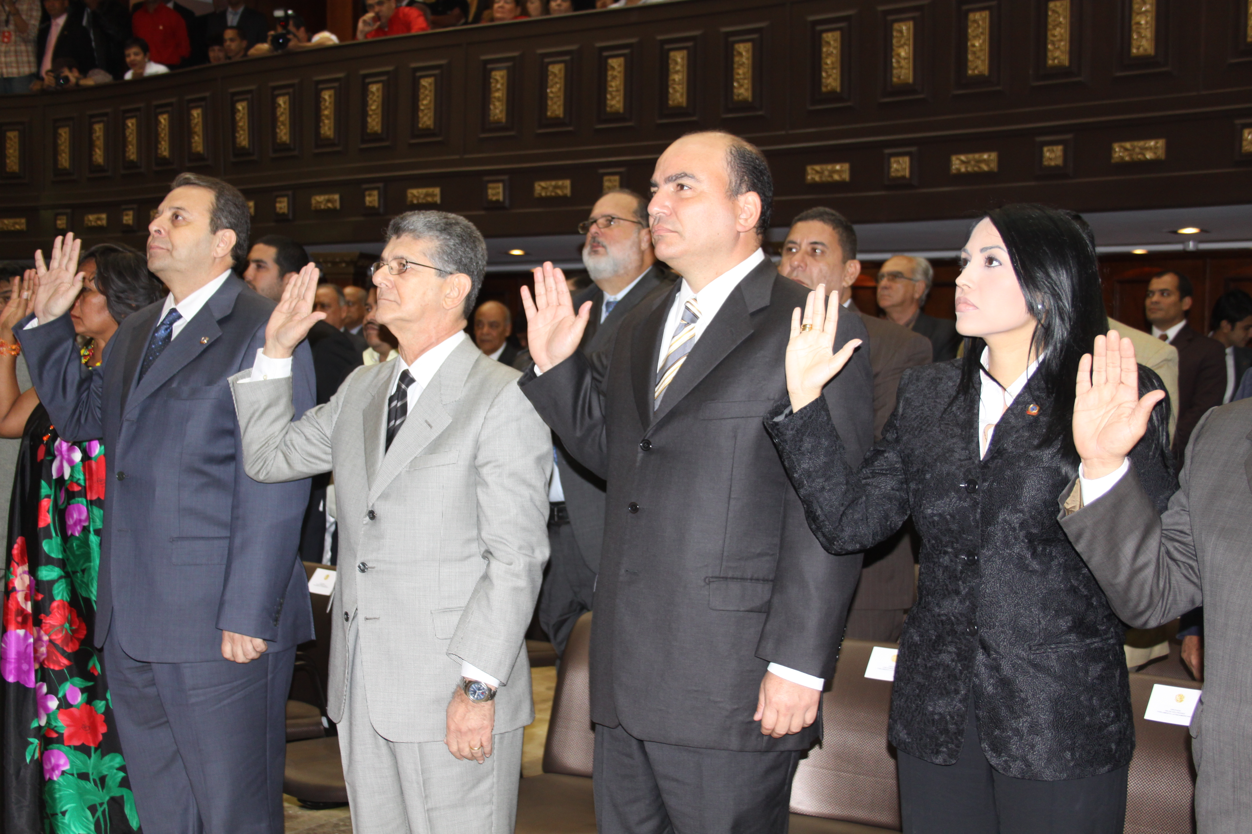 parlamentarios latinos Capitulo Venezuela juramentandose